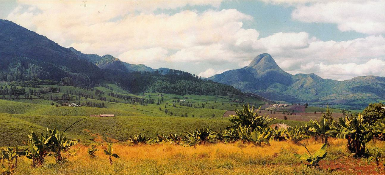 Photograph of Mount Murresse taken from the backyard of my grandfather, Dr. Oliveira, by an uncle of mine. Paulo Oliveira 01:17, 14 May 2005 (UTC) (C) Rui Oliveira, 2000.